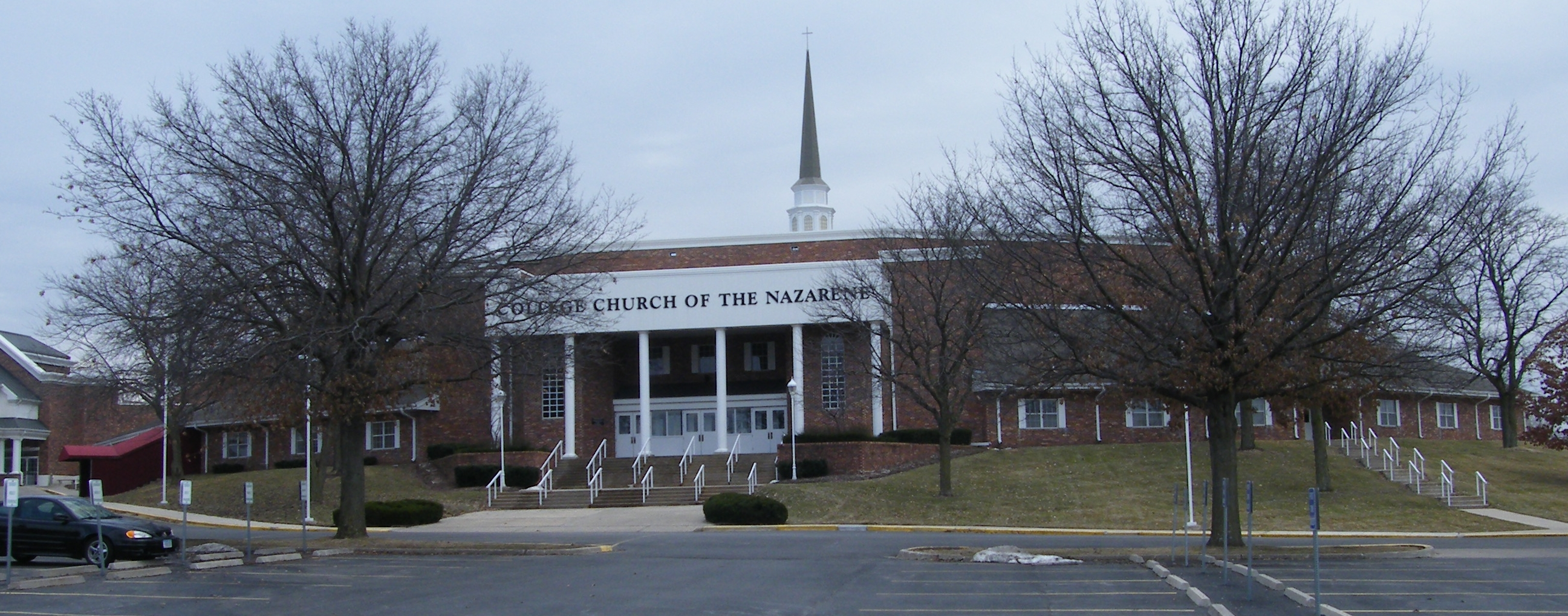 College Church of the Nazarene where Community Chapel is held at MidAmerica Nazarene University